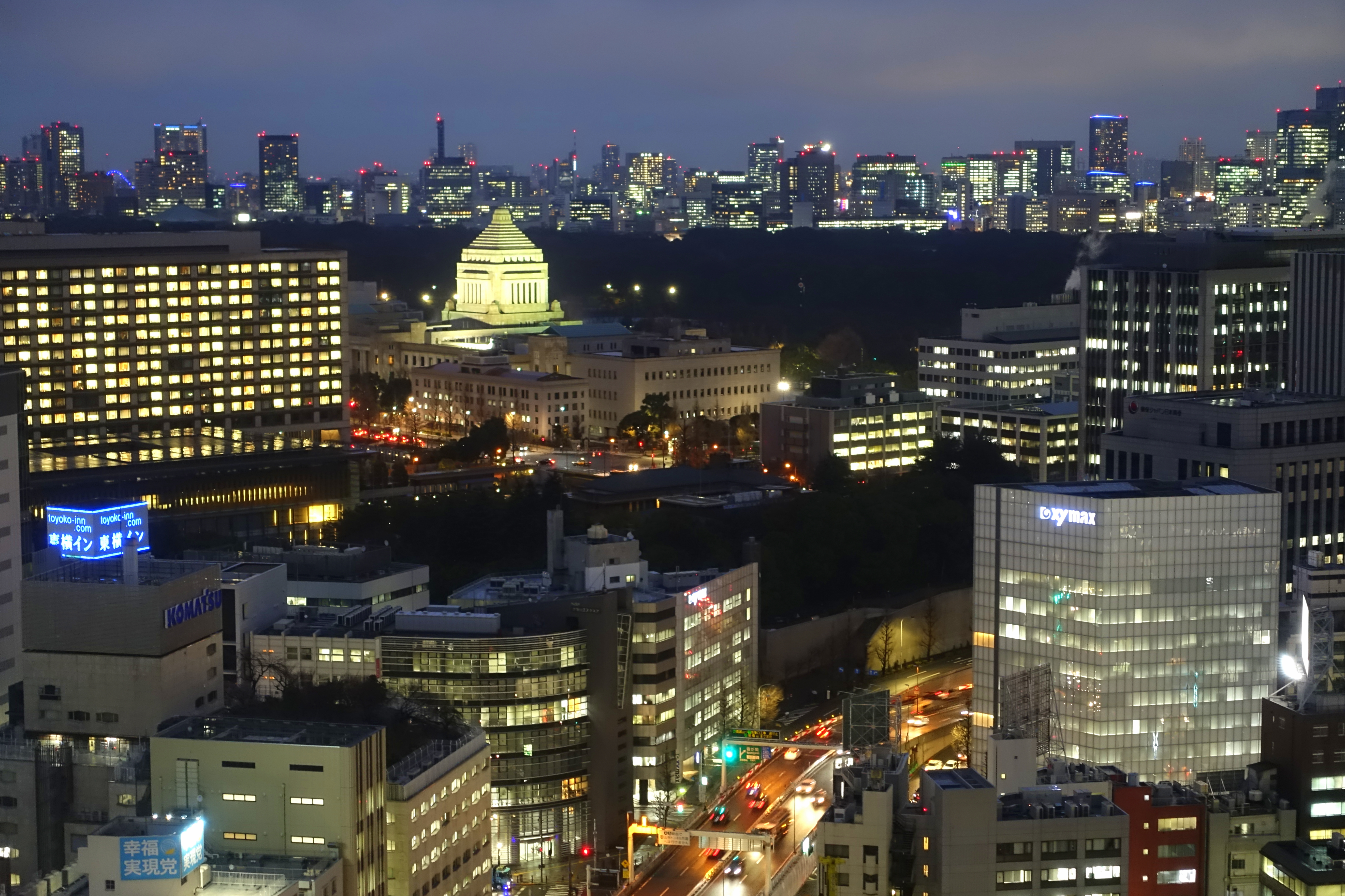 National Diet Building, illuminated at night - Tokyo, Japan.